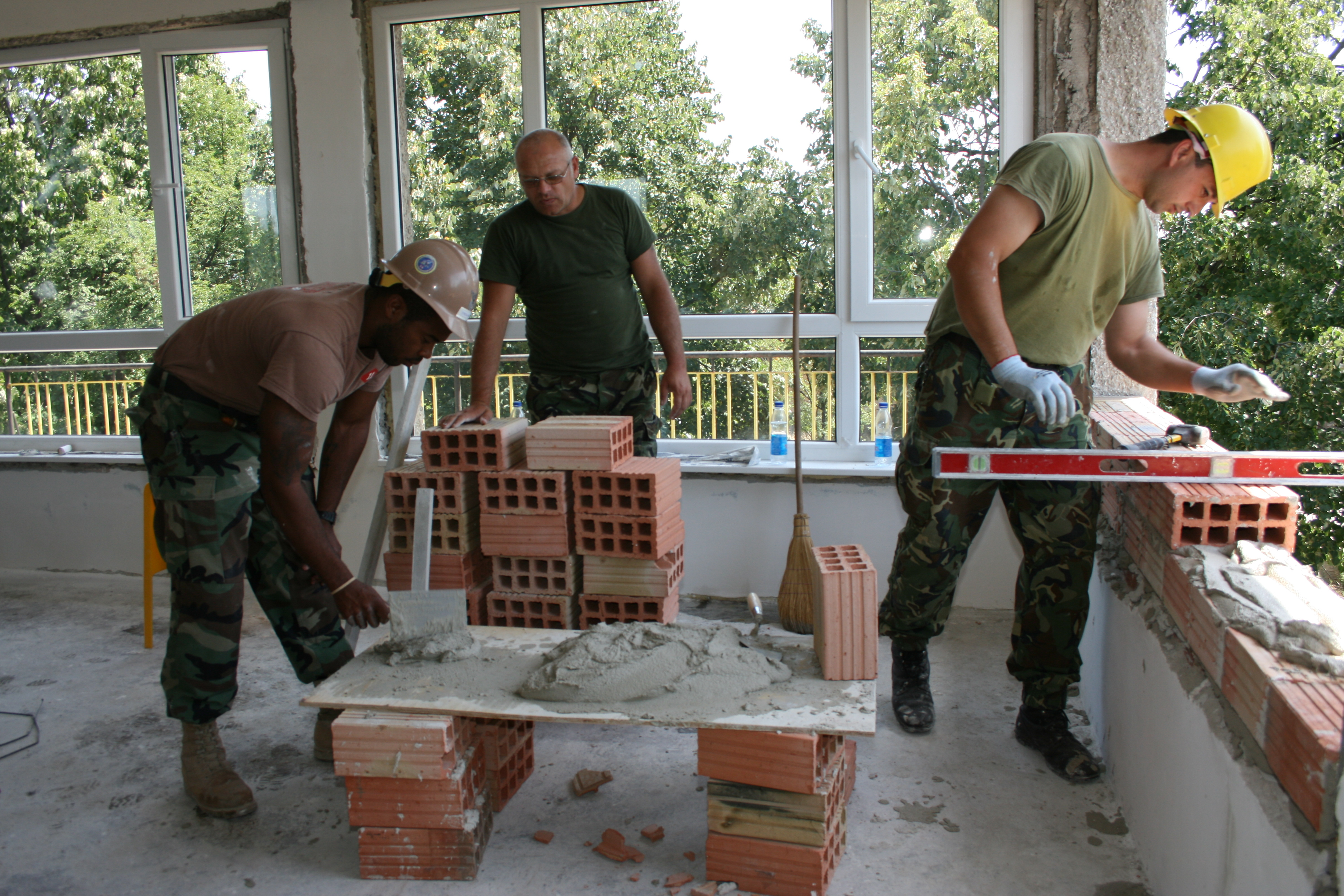 ZIMNITSA, Bulgaria – U.S. Navy Steel Worker 1st Class Kajuna T. Strickland, U.S. Naval Construction Battalion 11 out of Gulfport, Miss., and members of the Engineering Humanitarian Group from the Bulgarian Land Forces Warrant Officer Vichko Radev, senior engineer, and Pvt. Adem Yumerov, tank gunner, (left to right), work together July 24 to enclose a wall of the Sinchec Kindergarten here.